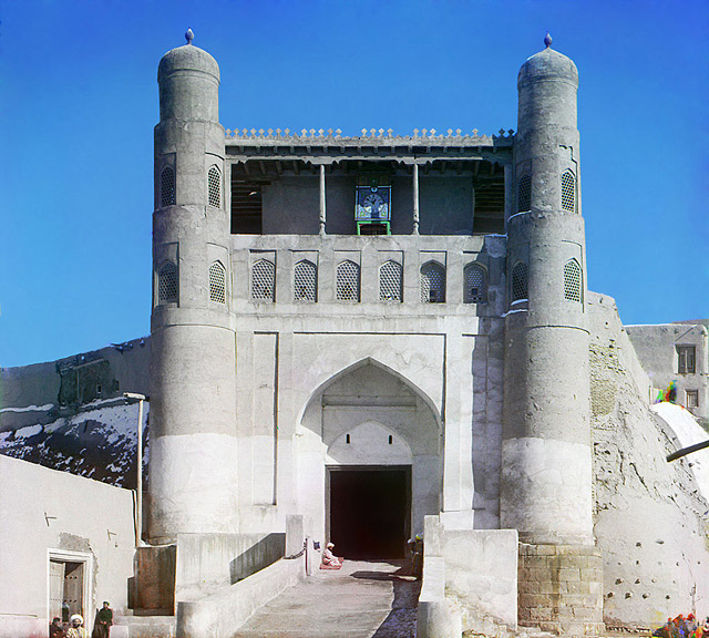 Early color photograph from Russia, created by Sergei Mikhailovich Prokudin-Gorskii as part of his work to document the Russian Empire from 1904 to 1916. Entrance to the Emir's palace in Bukhara.